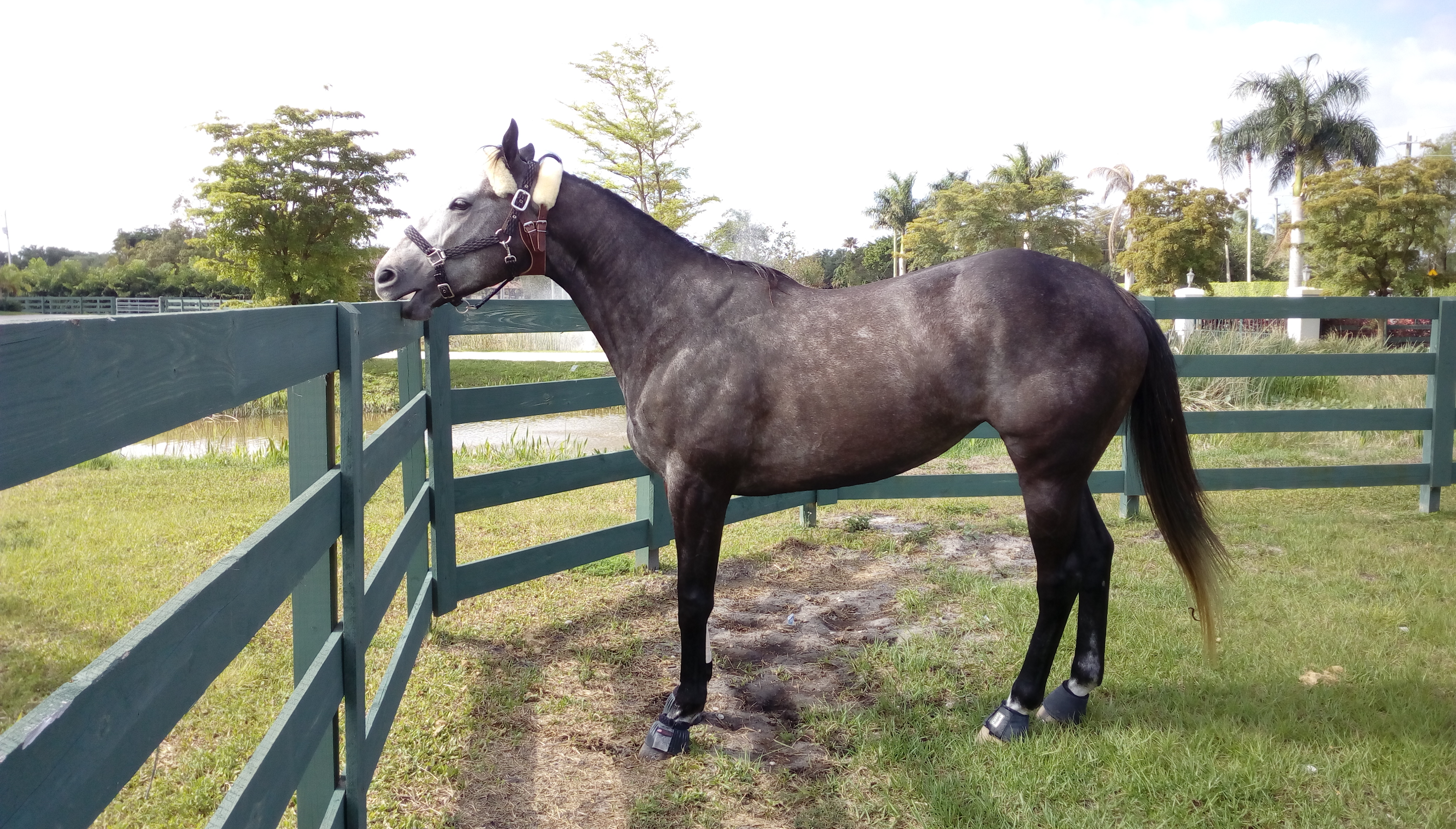 Horse sets front teeth on something to crib.